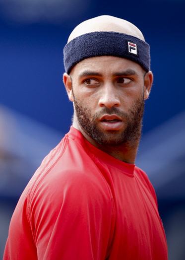 James Blake at 2009 Estoril Open, Oeiras, Portugal